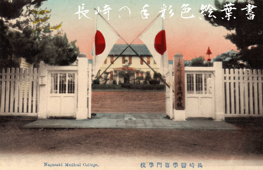 Japanese hand tinted postcard of the Nagasaki Medical College